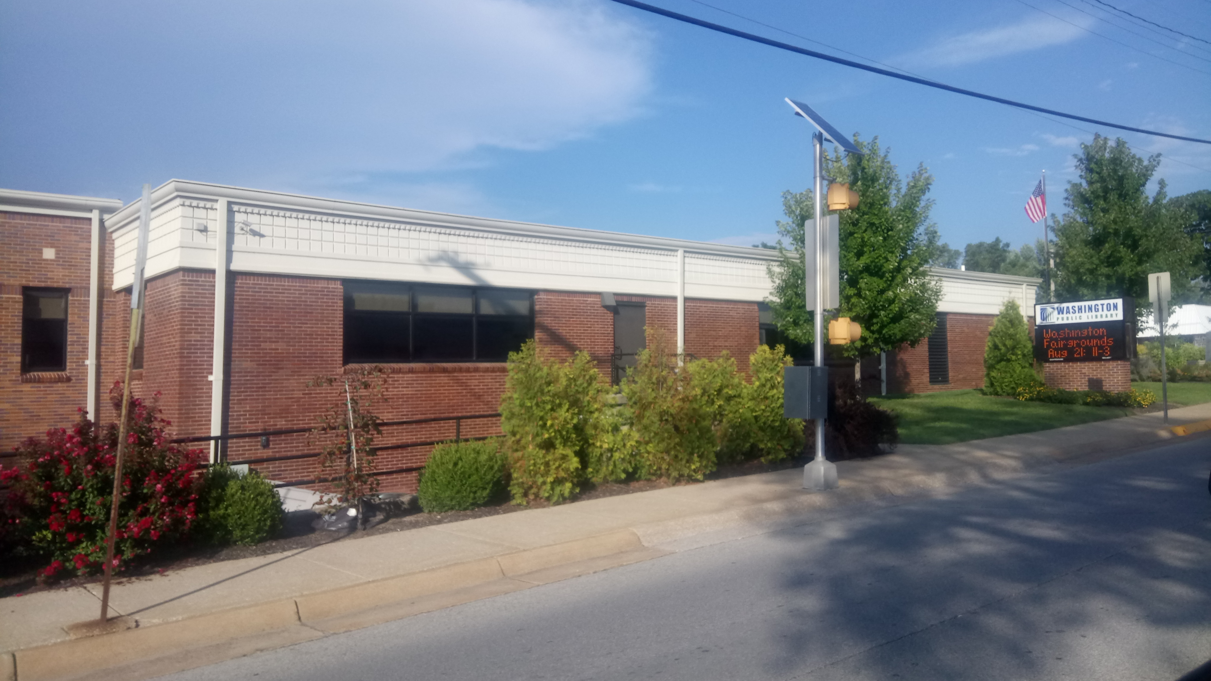 Washington, Missouri Library